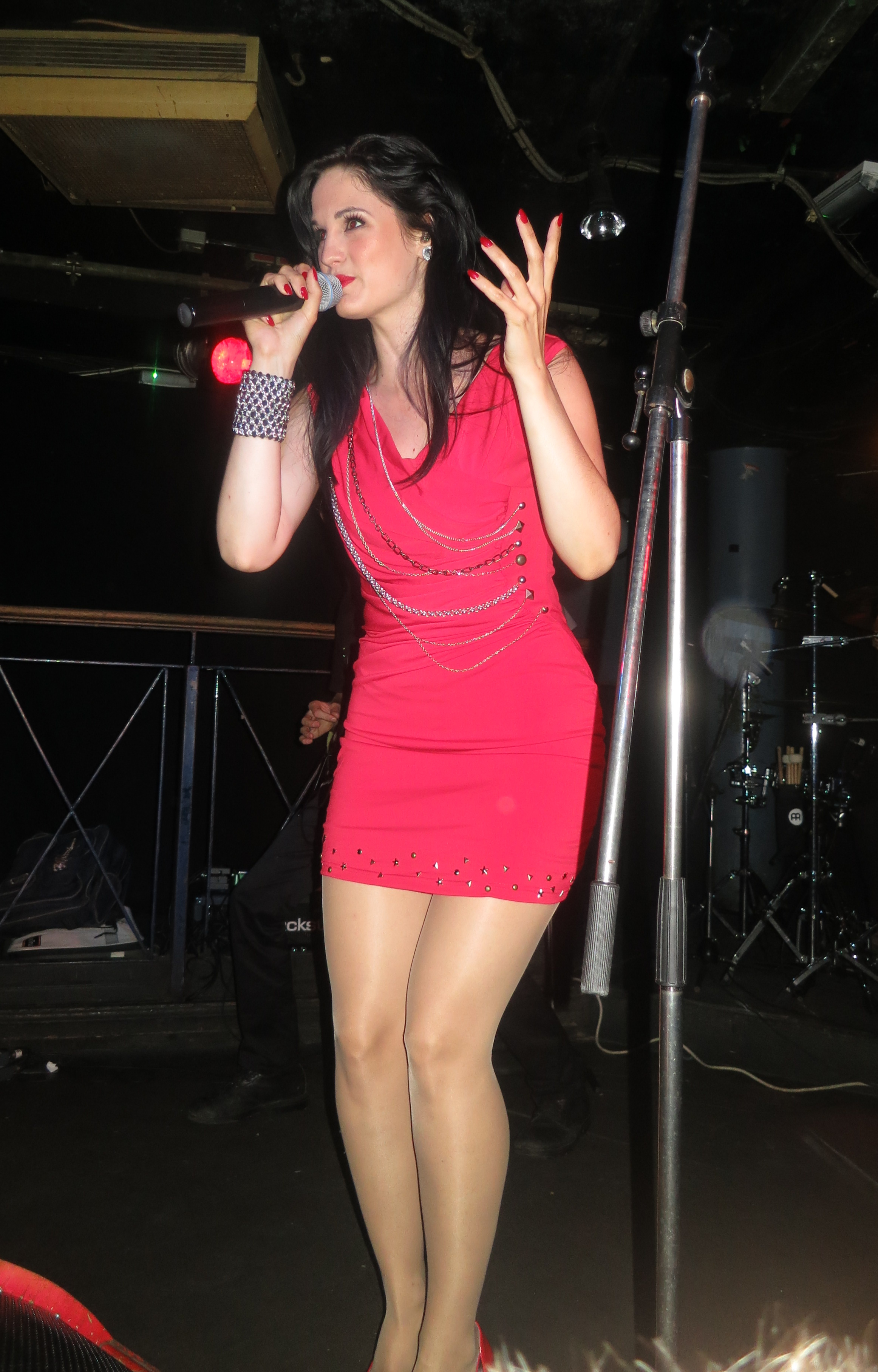 Dianne van Giersbergen performing with Ex Libris in London